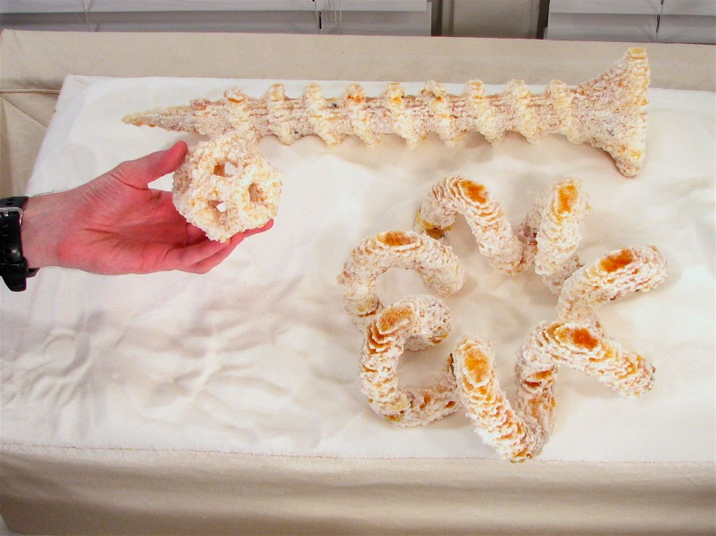 Completed toroidal coil sculpture, along with a model of a wood screw and a small dodecahedron. These objects were fabricated out of pure sugar on the CandyFab 4000, an experimental rapid prototyping machine that can use granulated sugar as the printing medium. This is part of the open-source CandyFab project: ; The same models could be made with molten sand by a lens focusing the sun's rays, computer-controlled